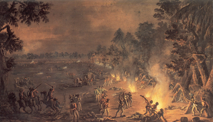 A Dreadful scene of havock, depicting the British light infantry and light dragoons attacking the Continental Army encampment at Paoli on 20 September 1777. The picture was painted in London and was commissioned for a British Army officer who had participated in the battle, possibly a Lieutenant Martin Hunter of the 52nd Regiment of Foot, the only British officer wounded in the battle. Left: Horsemen of the 16th Light Dragoons charge Continental infantry, while horsemen of the 1st and 2nd Continental Light Dragoons ride away firing their sidearms. Center foreground: Captain William Wolfe of the 40th Regiment of Foot lies dead, while Lieutenant Hunter bandages his right hand. Center background: Two Continental platoons fire on greenjackets, likely Ferguson's Riflemen. A supply wagon is captured, and a Continental line fires from the woods to cover the main column's retreat. Right: British light infantry bayonet Continental soldiers by their camp huts.